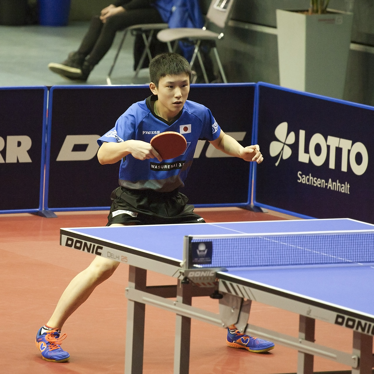 ITTF World Tour 2017 German Open, Magdeburg, Germany, 7 Nov 2017 - 12 Nov 2017, Harimoto Tomokazu.